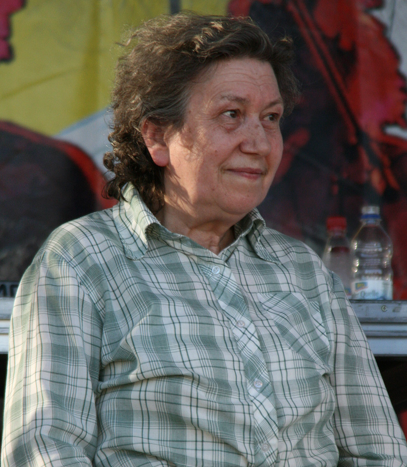 Austrian social worker and human rights activist Ute Bock at the Africa Days in Vienna.